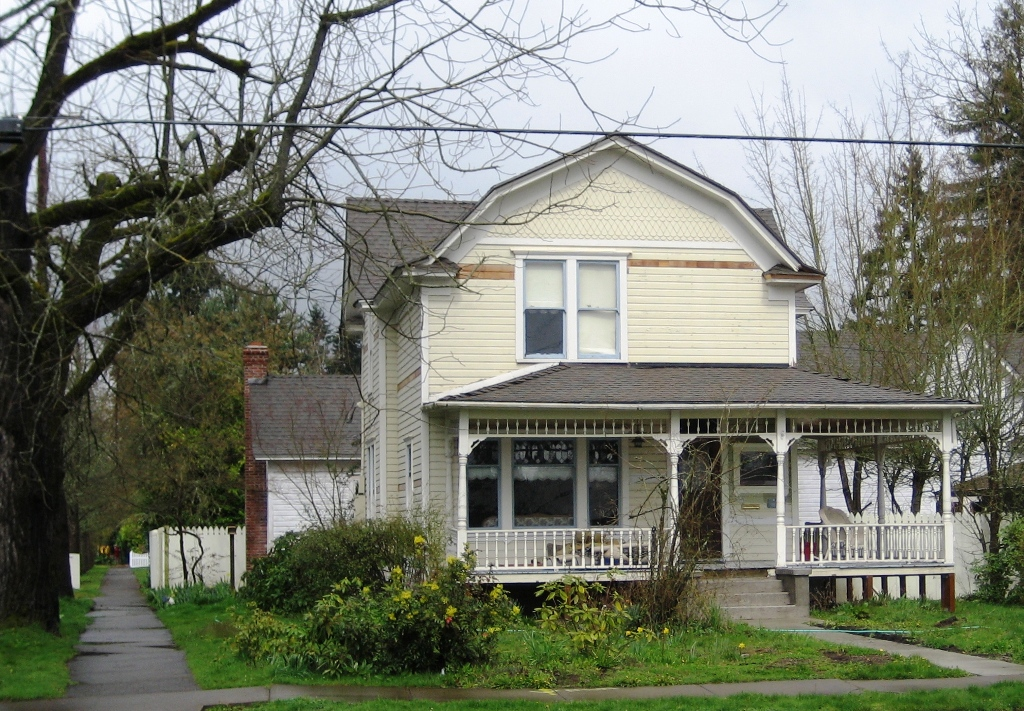 Charles Shorey House in Hillsboro, Oregon